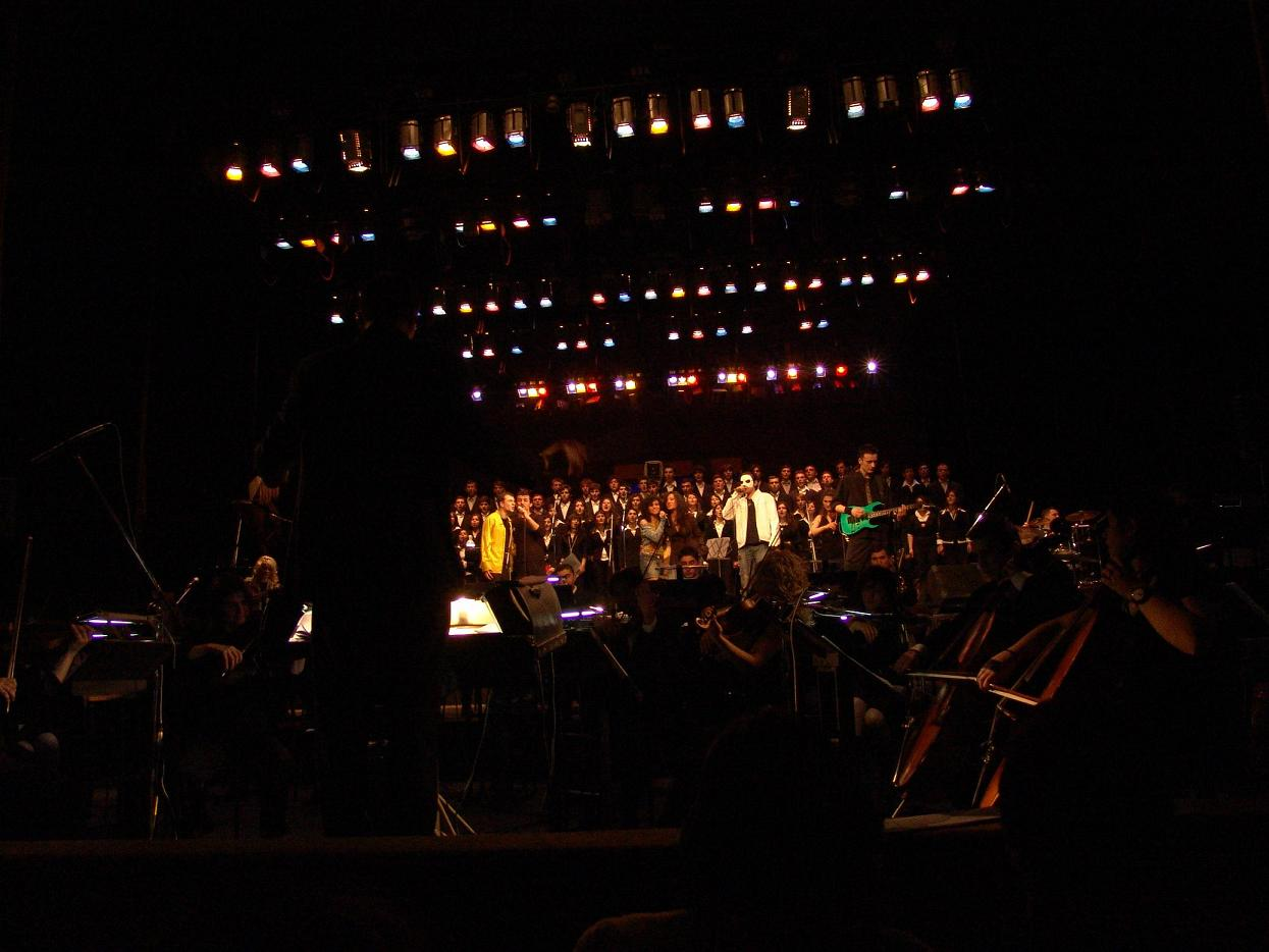 "The Light Year" performing its rock cantata "Generation XXI" (2006)